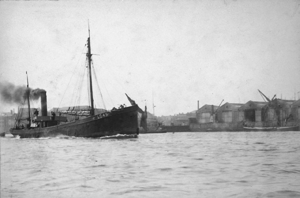 Reproduction ID: H0975 Maker: Thacker Date: circa 1884 Thacker Collection